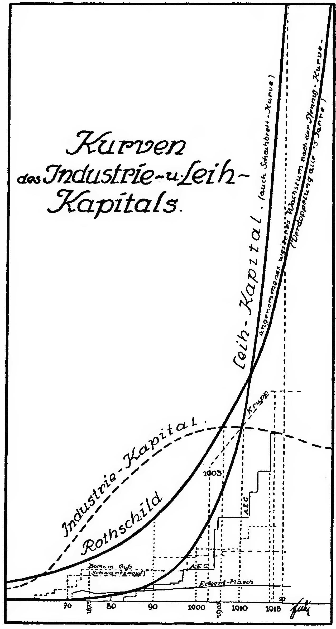 Image of page 17 (page 19 of PDF) of the book "Das Manifest zur Brechung der Zinsknechtschaft"